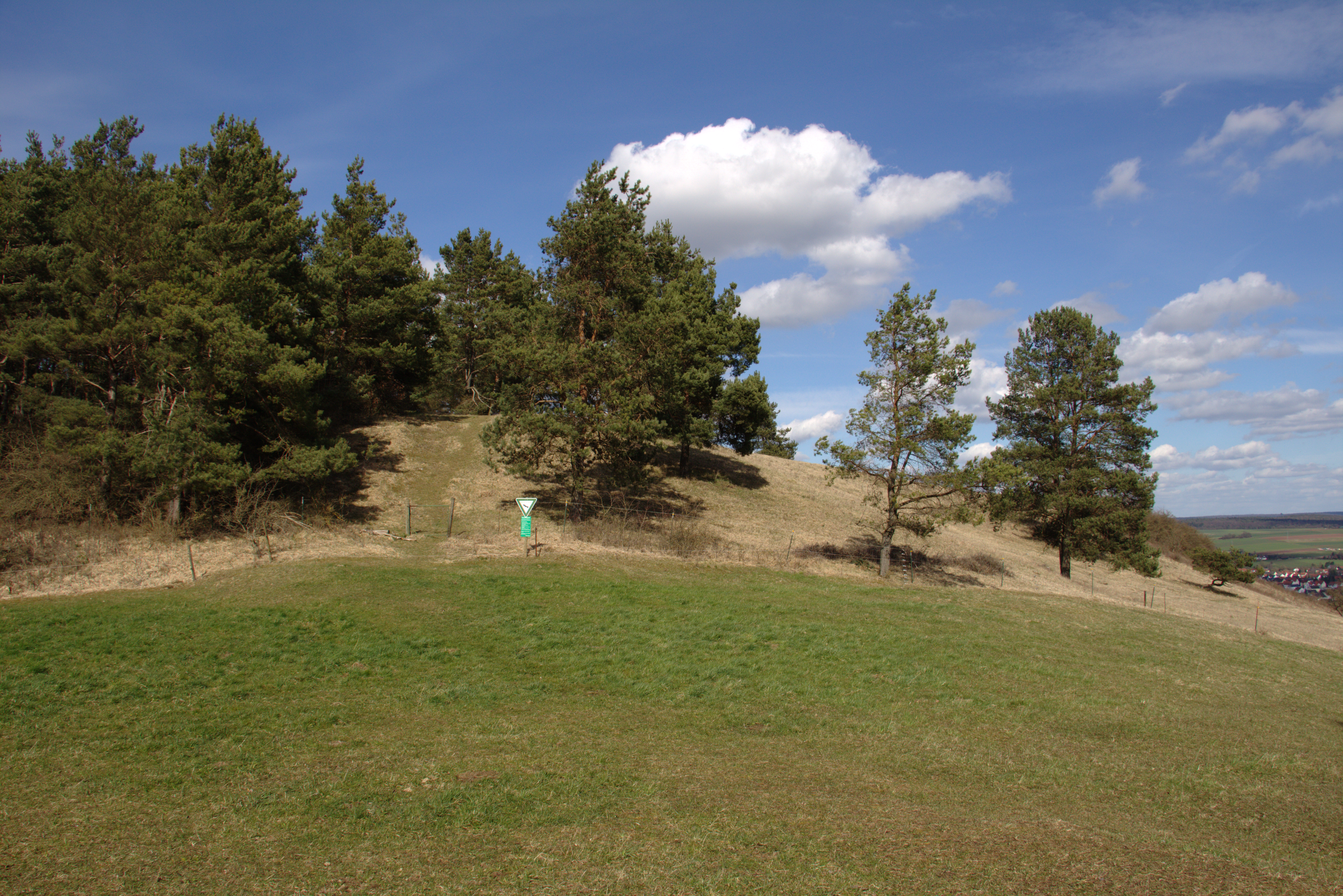 "Kalkberge bei Großenlüder" Nature Reserve between Mues and Grossenlueder, Grossenlueder, Hesse, Germany